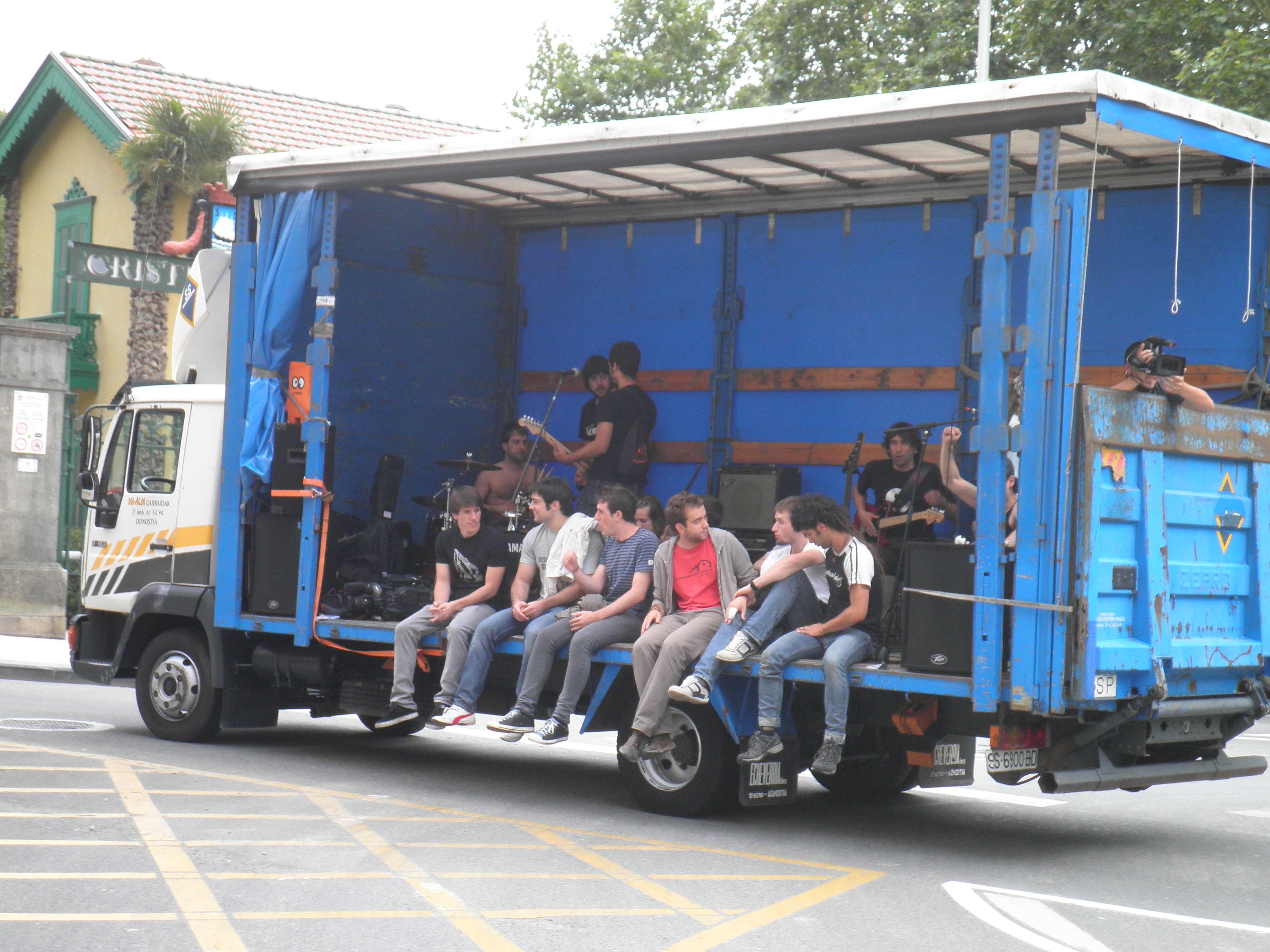 Midsummer festival in Egia neigbourhood, Donostia.